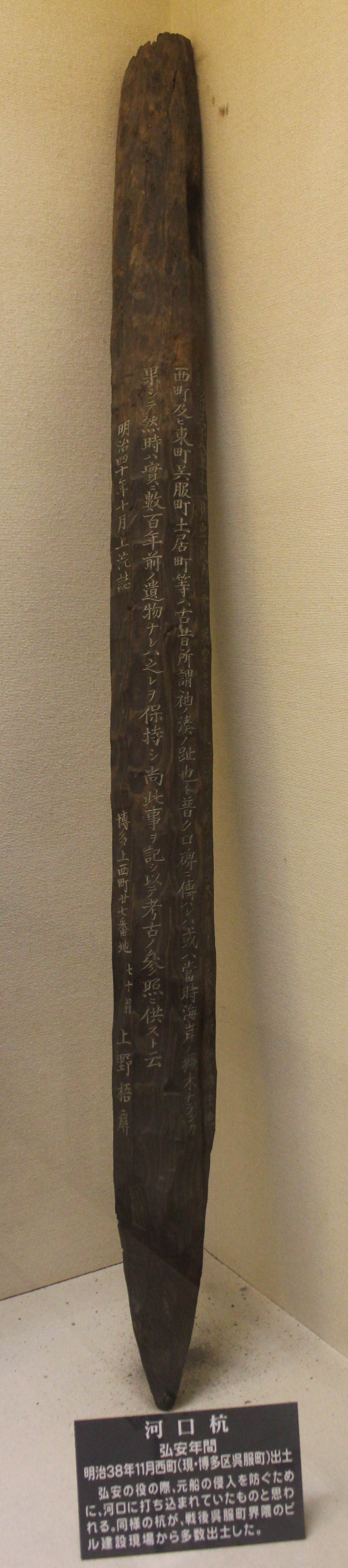 The stake of a Japanese army